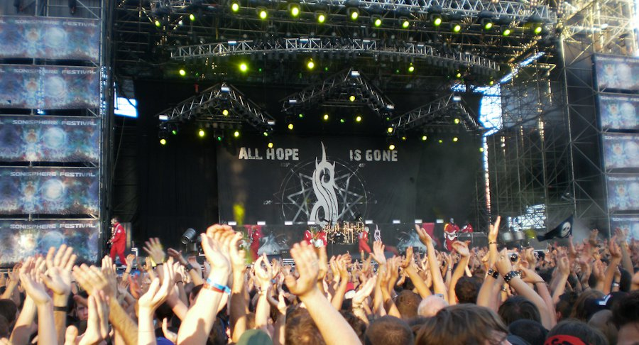 Slipknot live at Sonisphere Festival Italy 2011